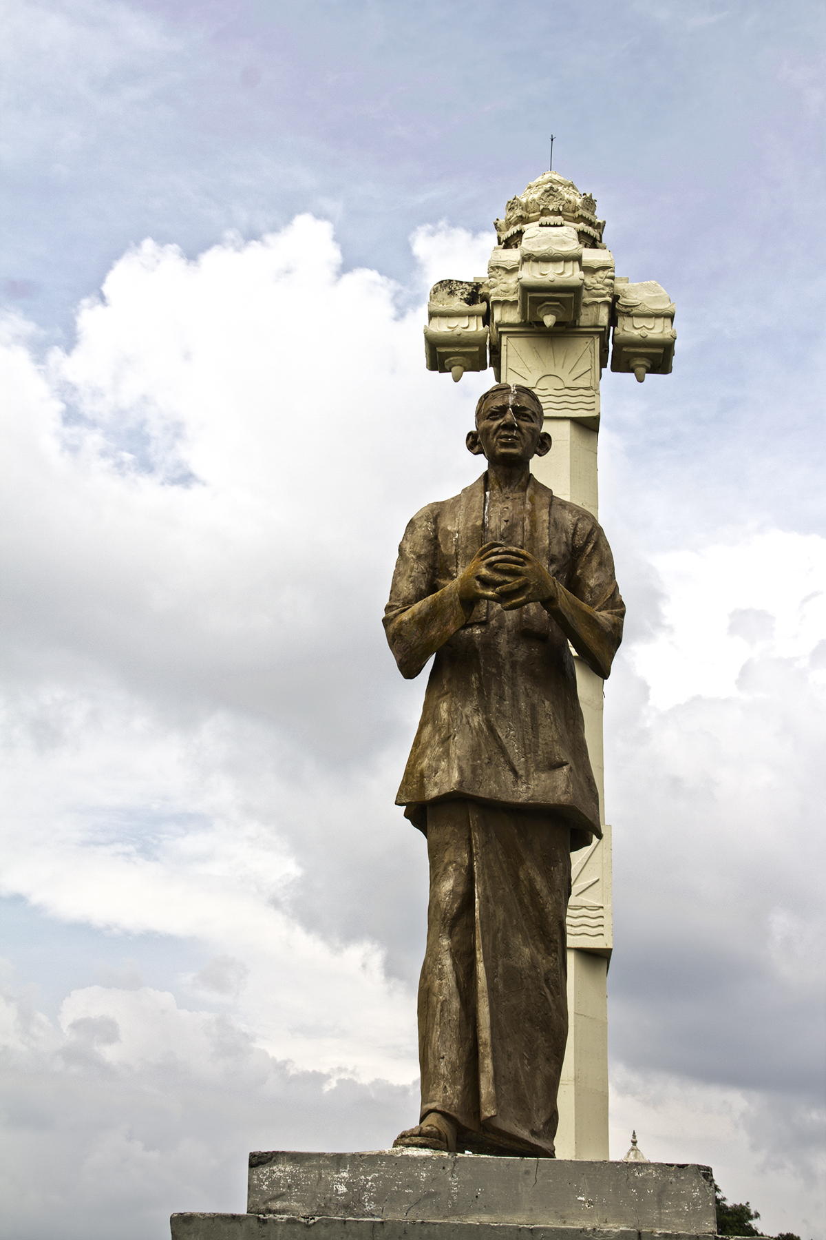 A statue of S. J. V. Chelvanayakam (1898-1977), a Sri Lankan Tamil politician.